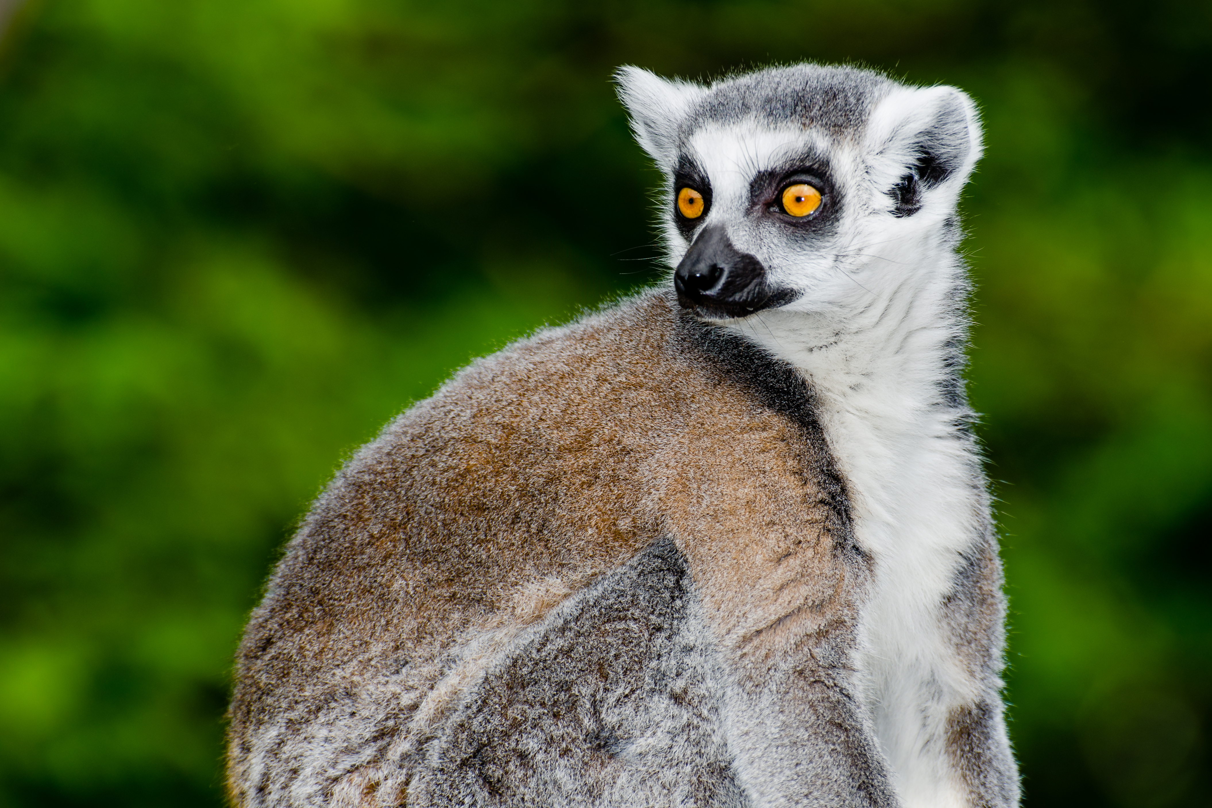 Lemur catta heads (Zoo Münster)